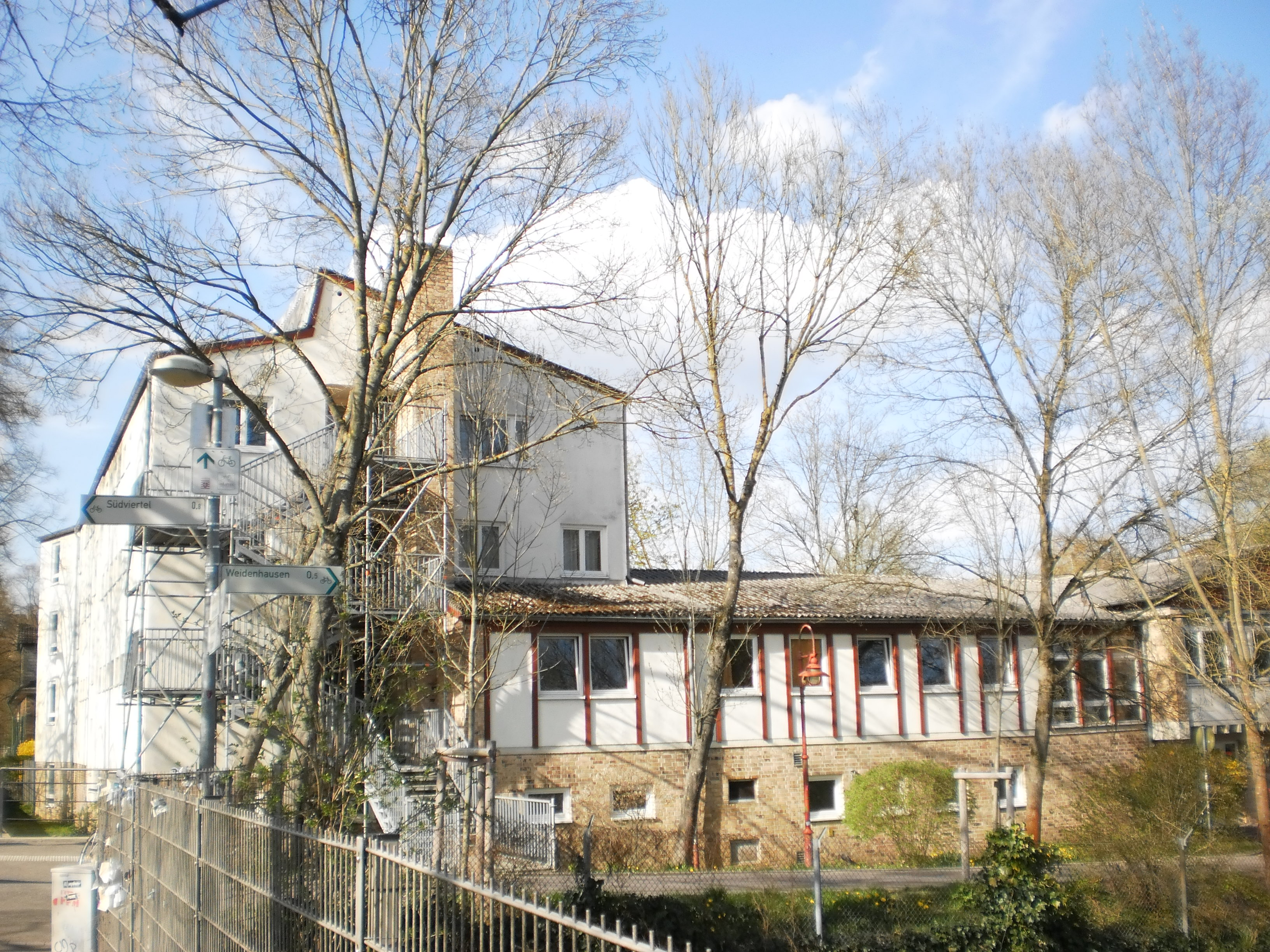 Youth hostel in Marburg near river Lahn and South of old town (photo April 2016). Two other photos below↓